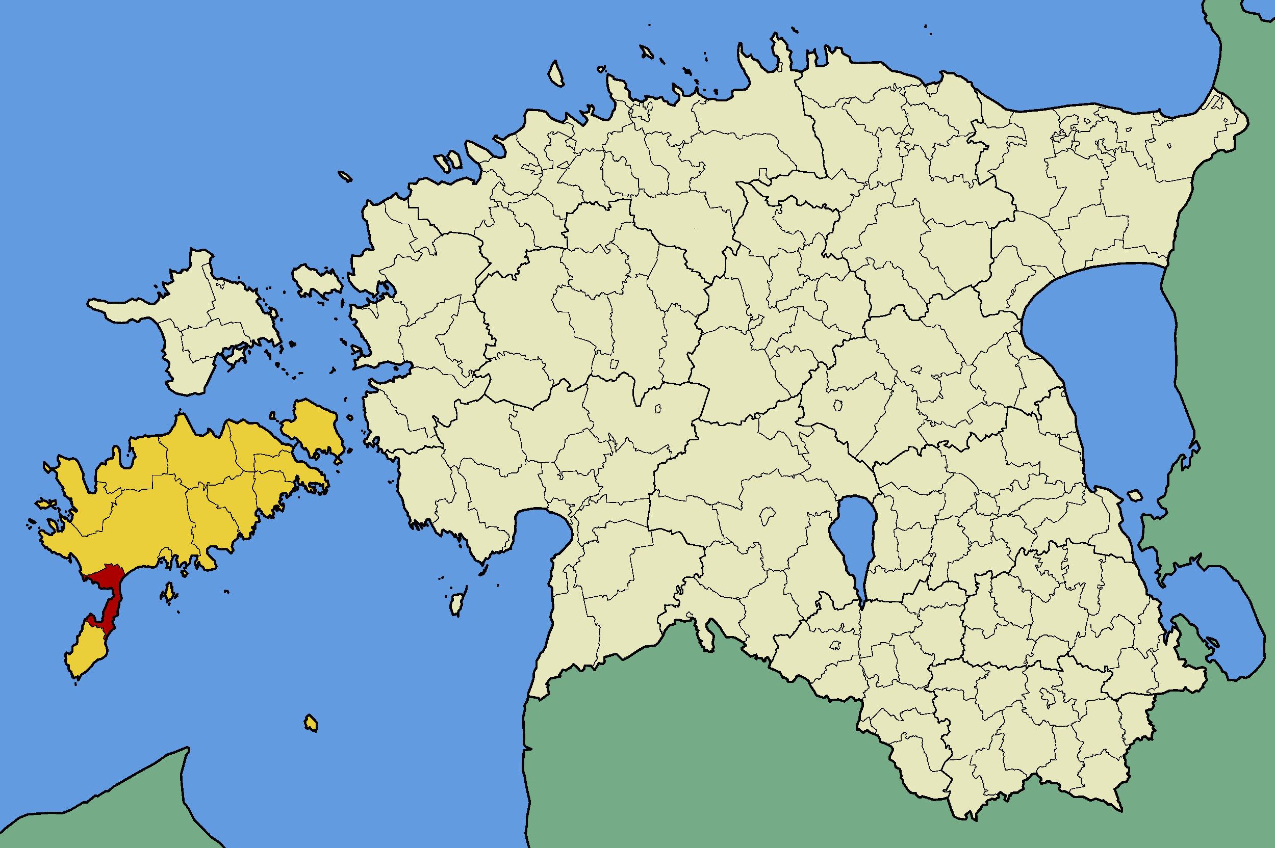 Map of Estonia with borders of municipalities (parishes). Saare county and Salme municipality emphasized.